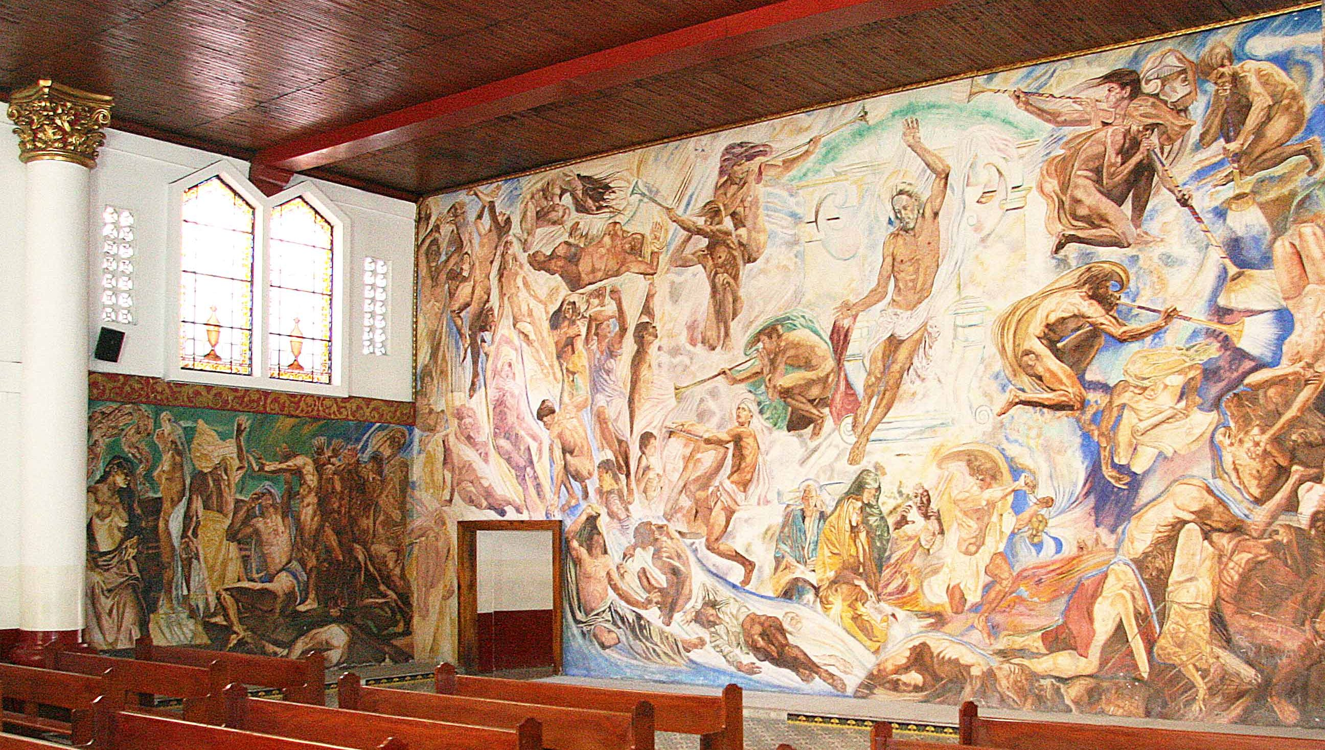 Dario Rojas - El Juicio Ante el Gran Trono Blanco